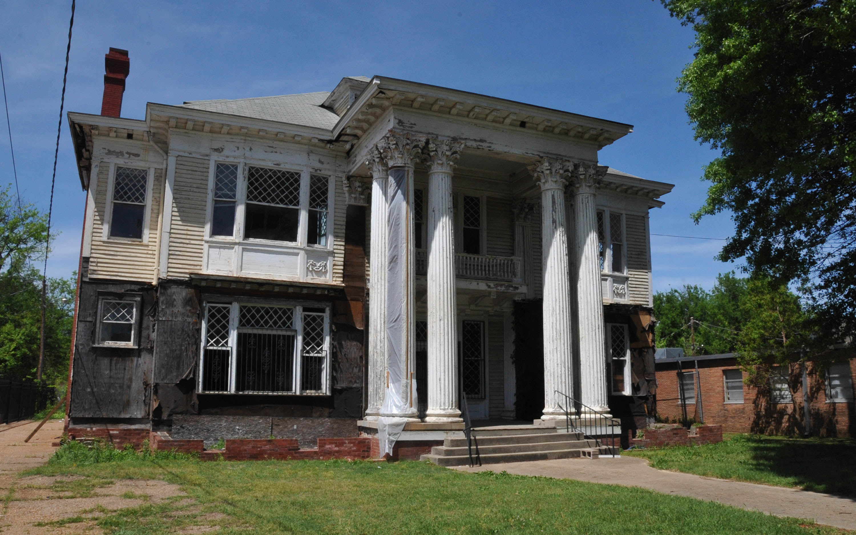 1907 COLONIAL REVIVAL